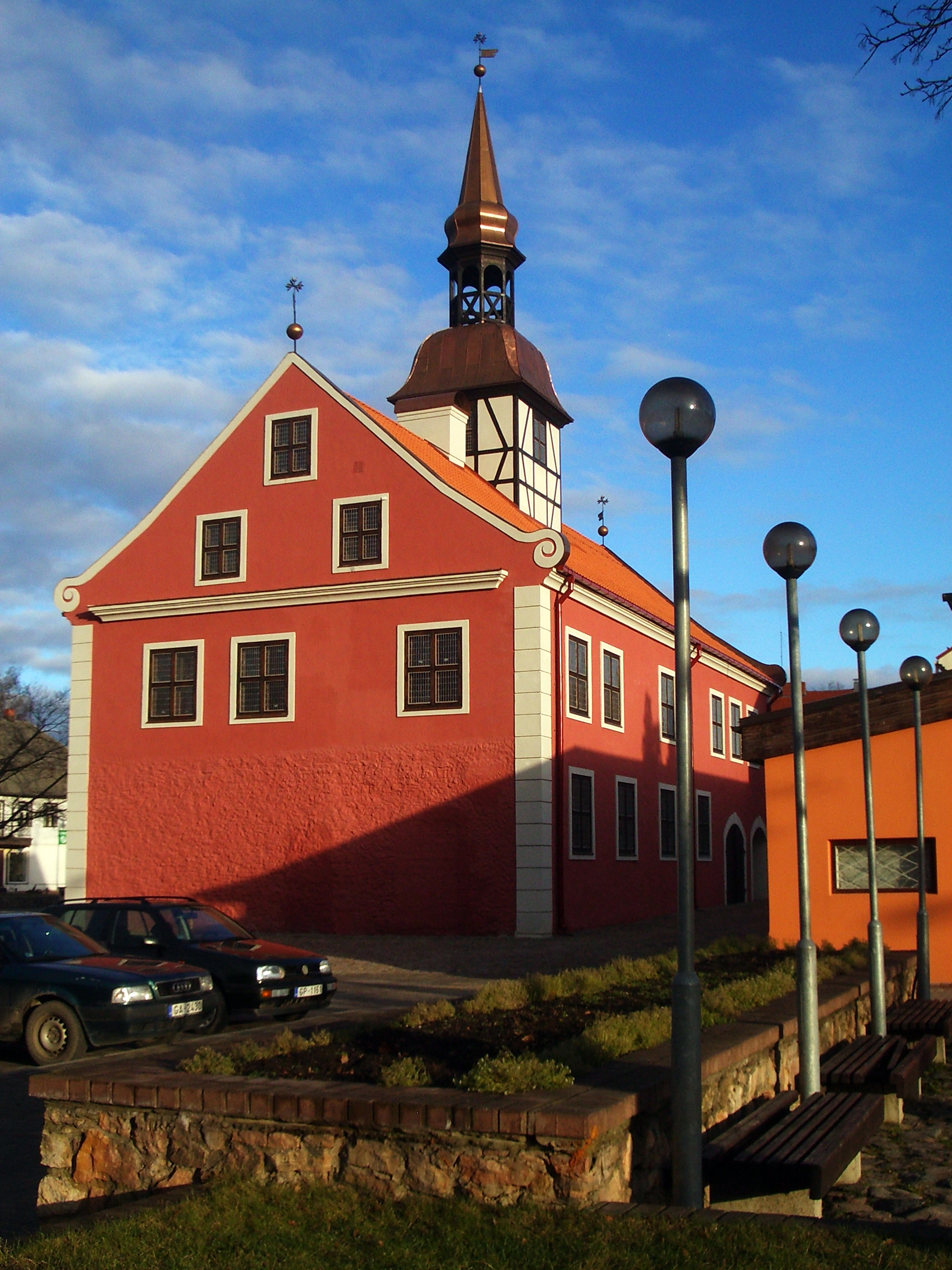 Renowed town hall of Bauska